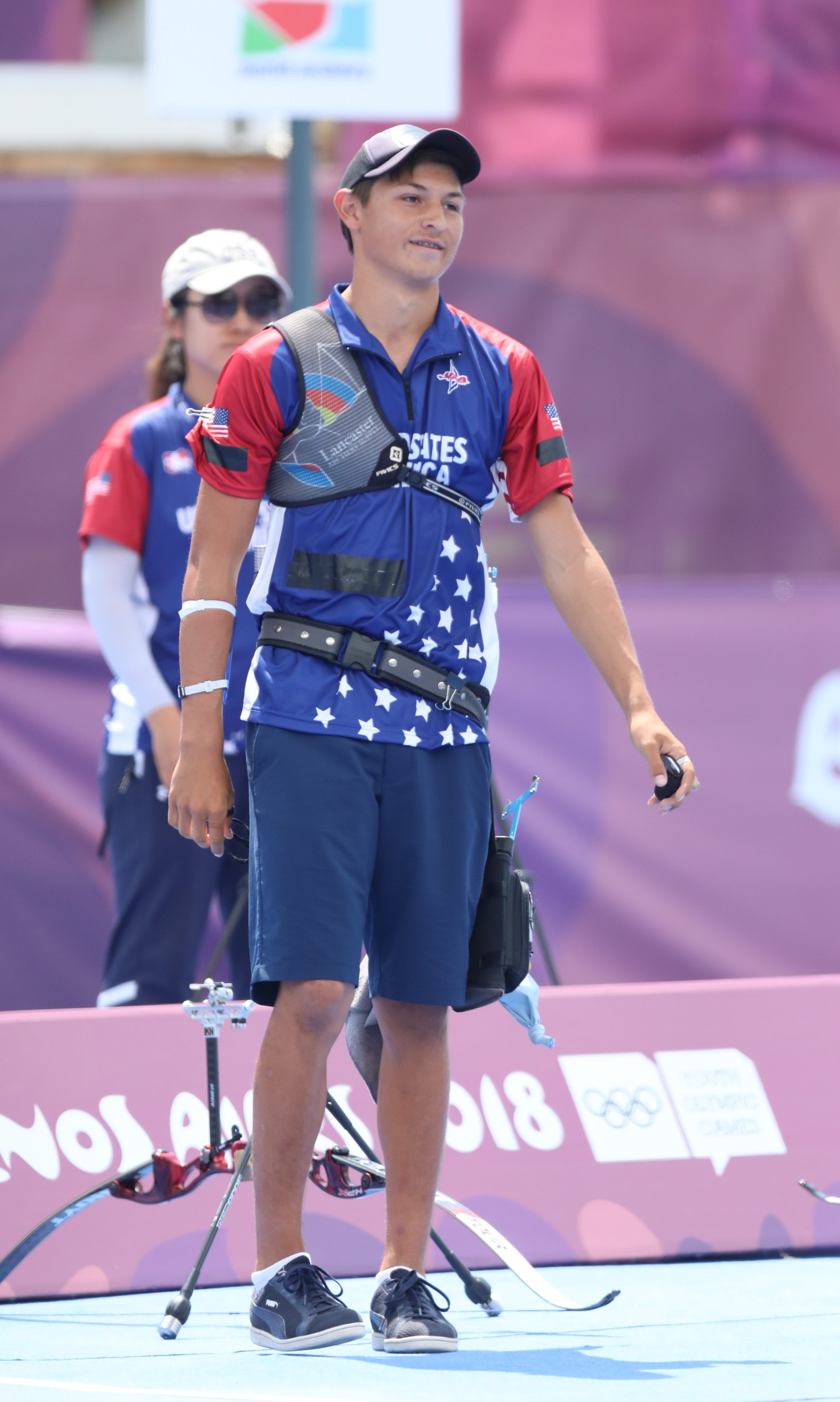 2nd round section 4 match of the boys' archery at the 2018 Summer Youth Olympics in Buenos Aires on 12 October 2018: USA vs. Chinese Taipei.